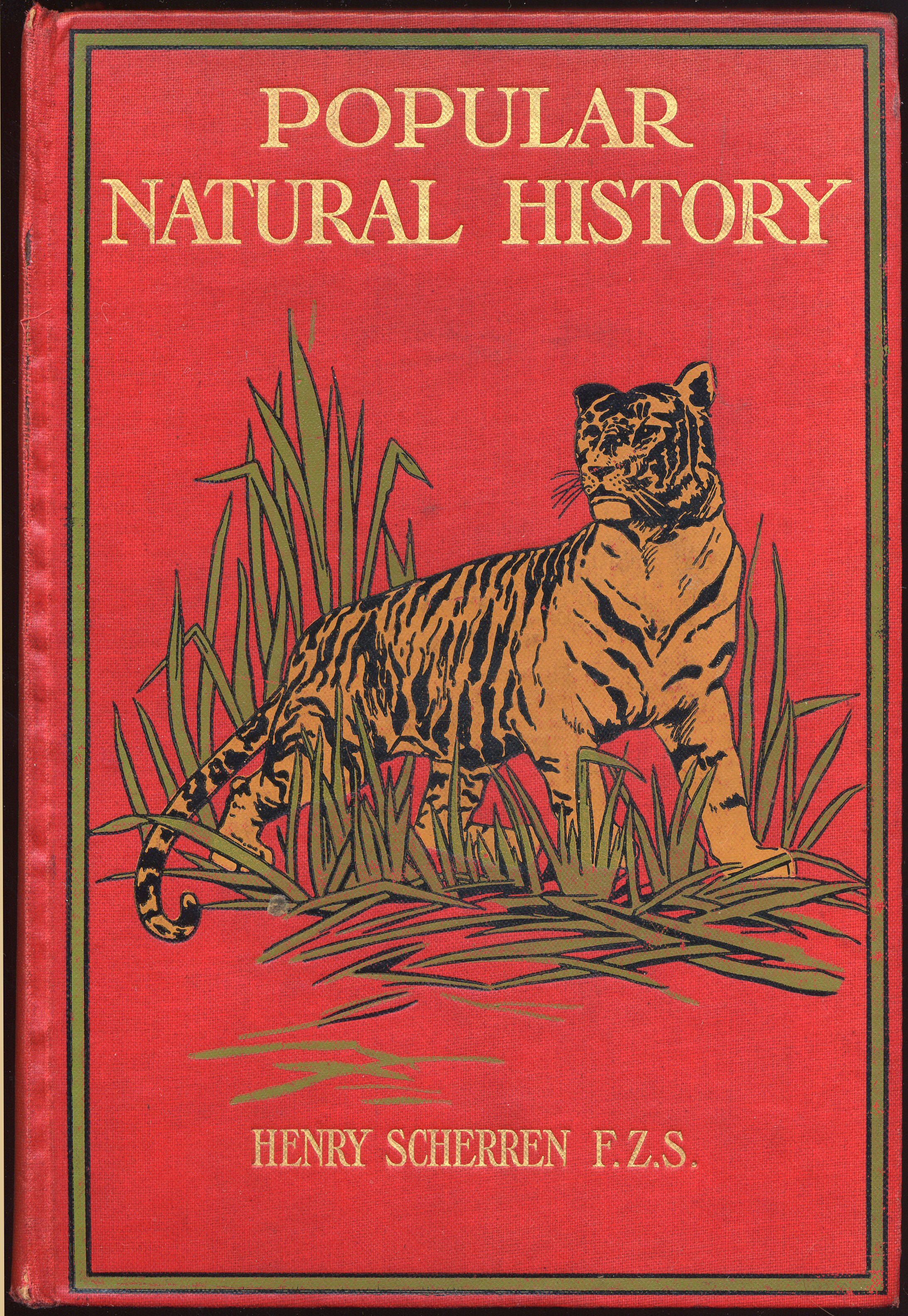 Front cover of Popular Natural History by Henry Scherren, Fellow of the Zoological Society of London, Cassell, 1906